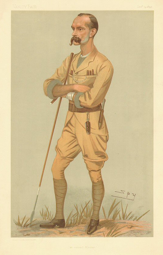 Men of the Day No.0639: Caricature of Capt FJD Lugard DSO CB. Caption reads: "An earnest African"